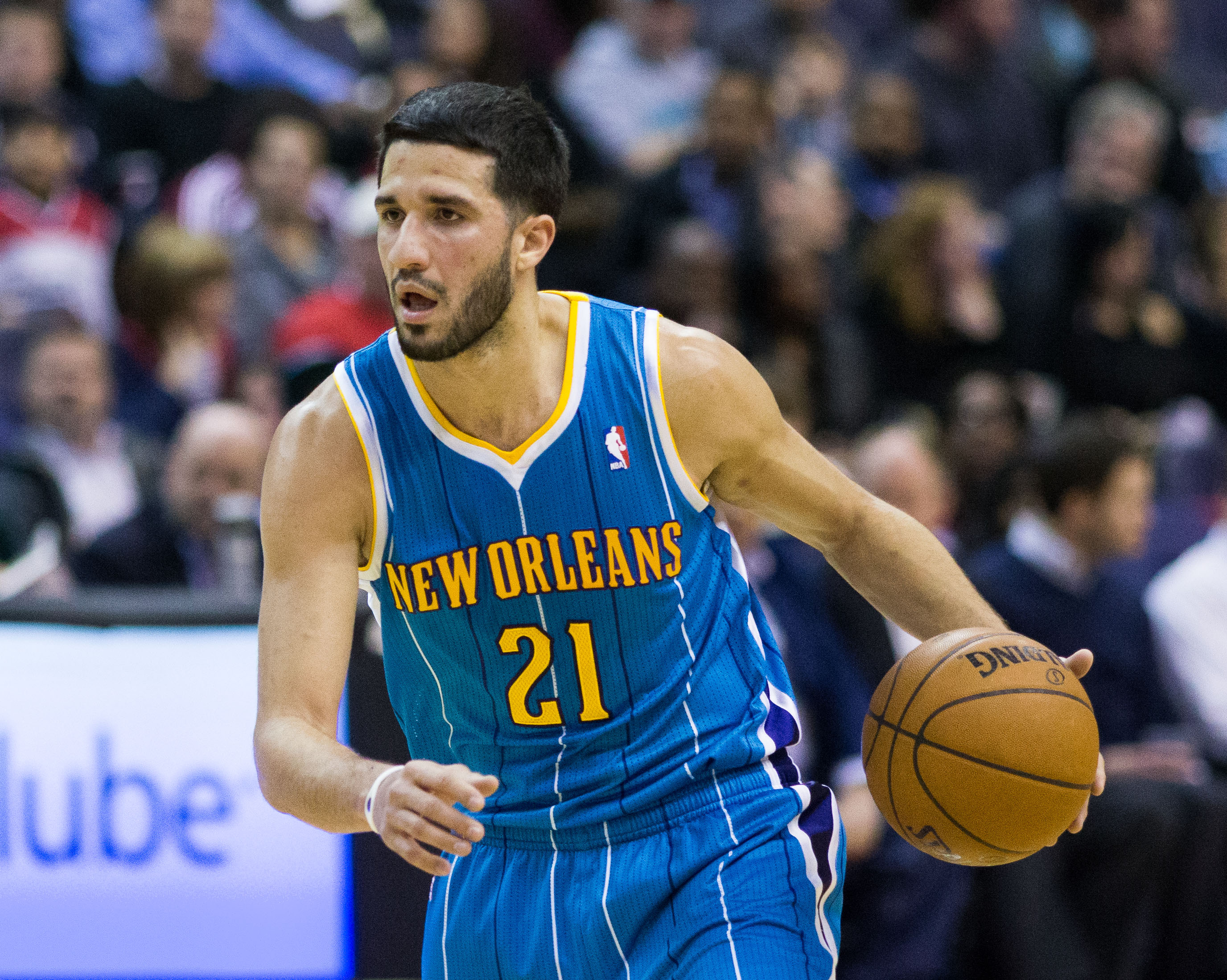 New Orleans Hornets at Washington Wizards March 15, 2013